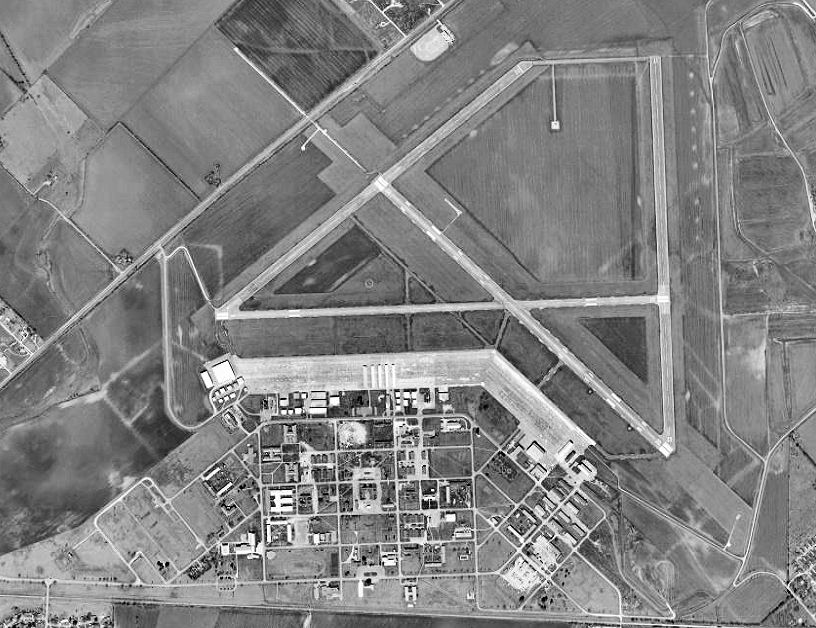 USGS orthophoto of San Marcos Municipal Airport, formerly Gary Air Force Base, in Texas, United States